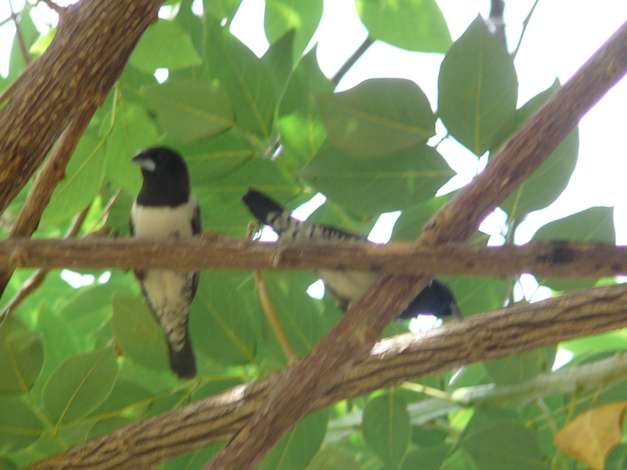 Bronze Mannikin